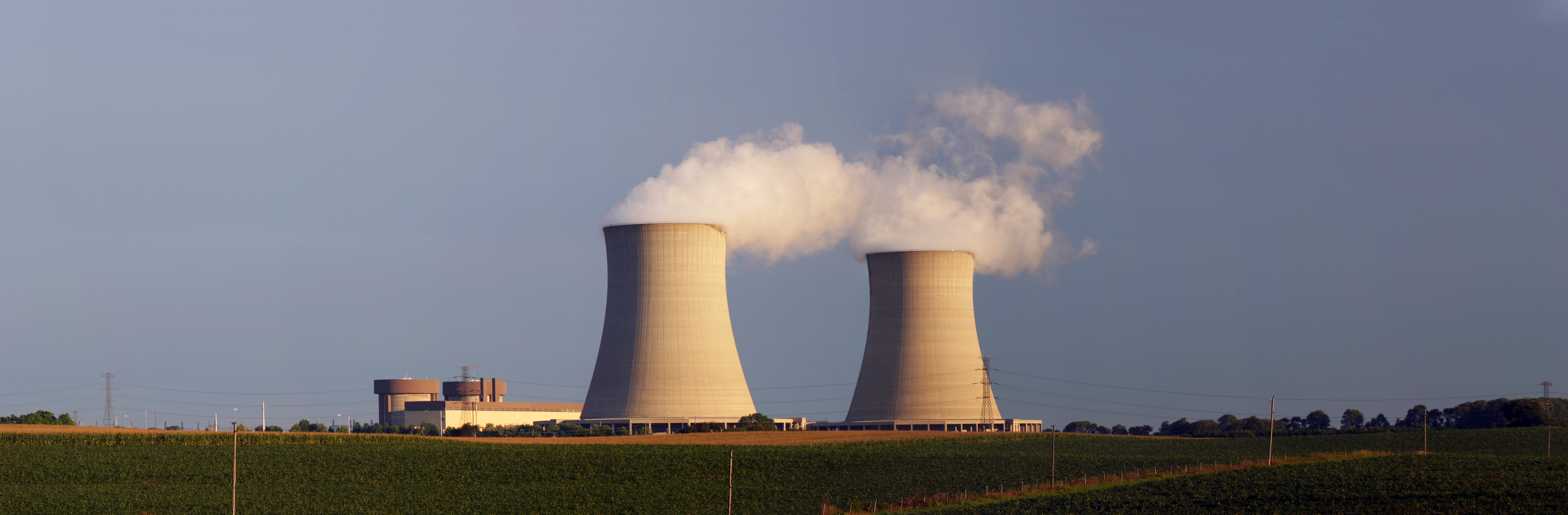 Byron Nuclear Generating Station in Ogle County, Illinois, USA. The facility was constructed by Babcock and Wilcox and has two Westinghouse pressurized water reactors, unit 1 and unit 2, which first began operation in September 1985 and August 1987 respectively. The plant was built for Commonwealth Edison and is currently owned and operated by Exelon Corporation.